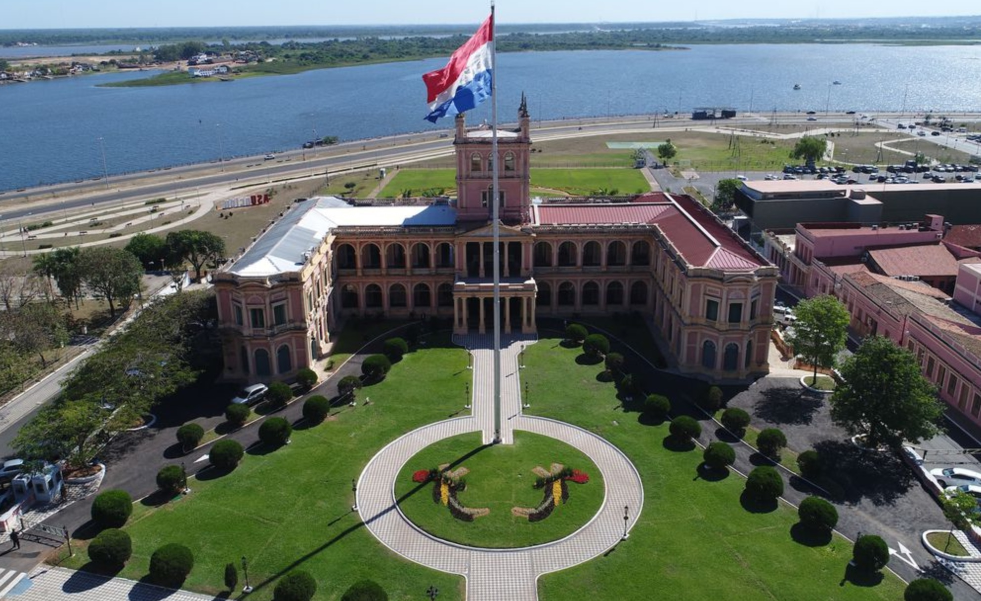 Palacio de López from above